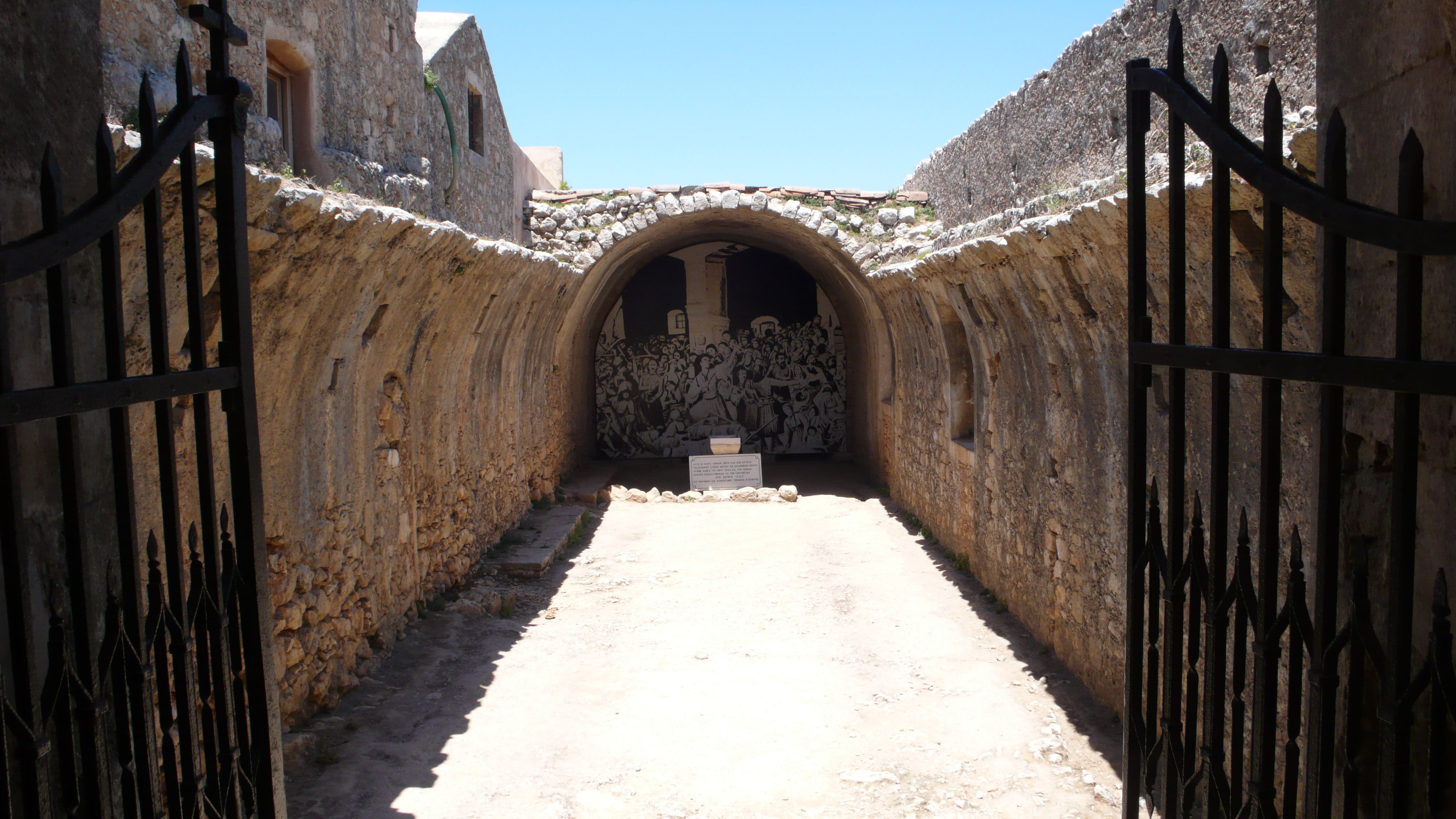 Powder Magazine, Arkadi Monastery, Crete